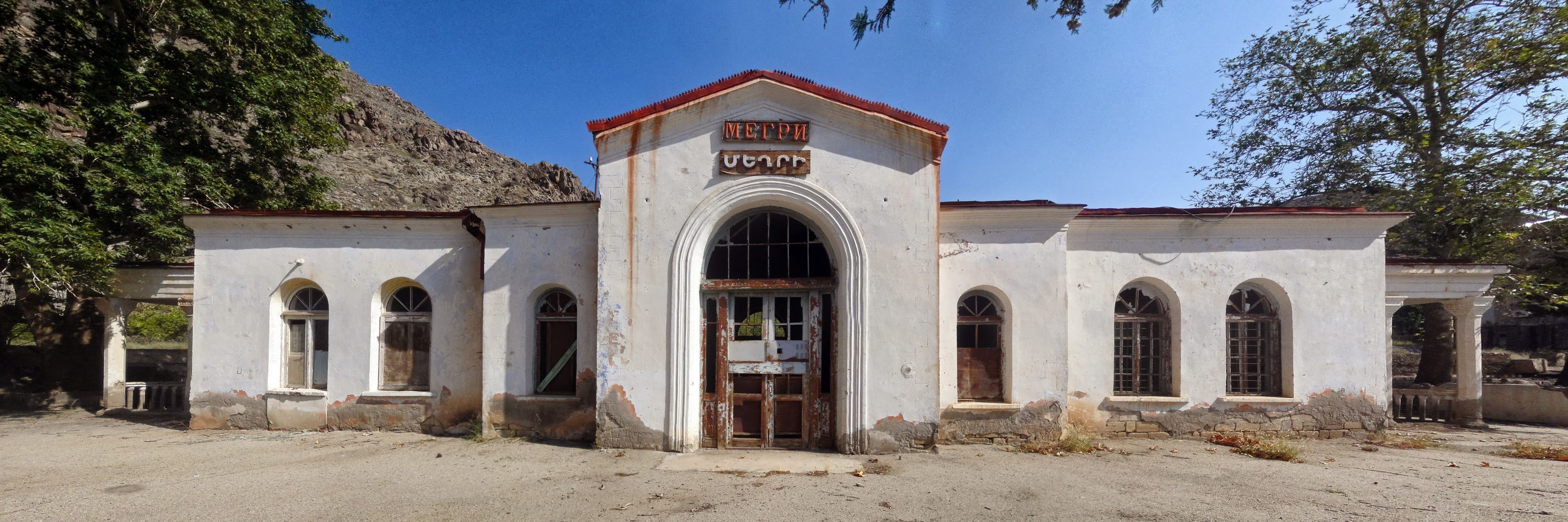 Meghri, Railroad station, 2013.08.26